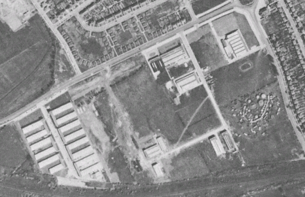 The RAF South Ruislip site in 1945. The station opened for use by the United States Air Force in 1949.